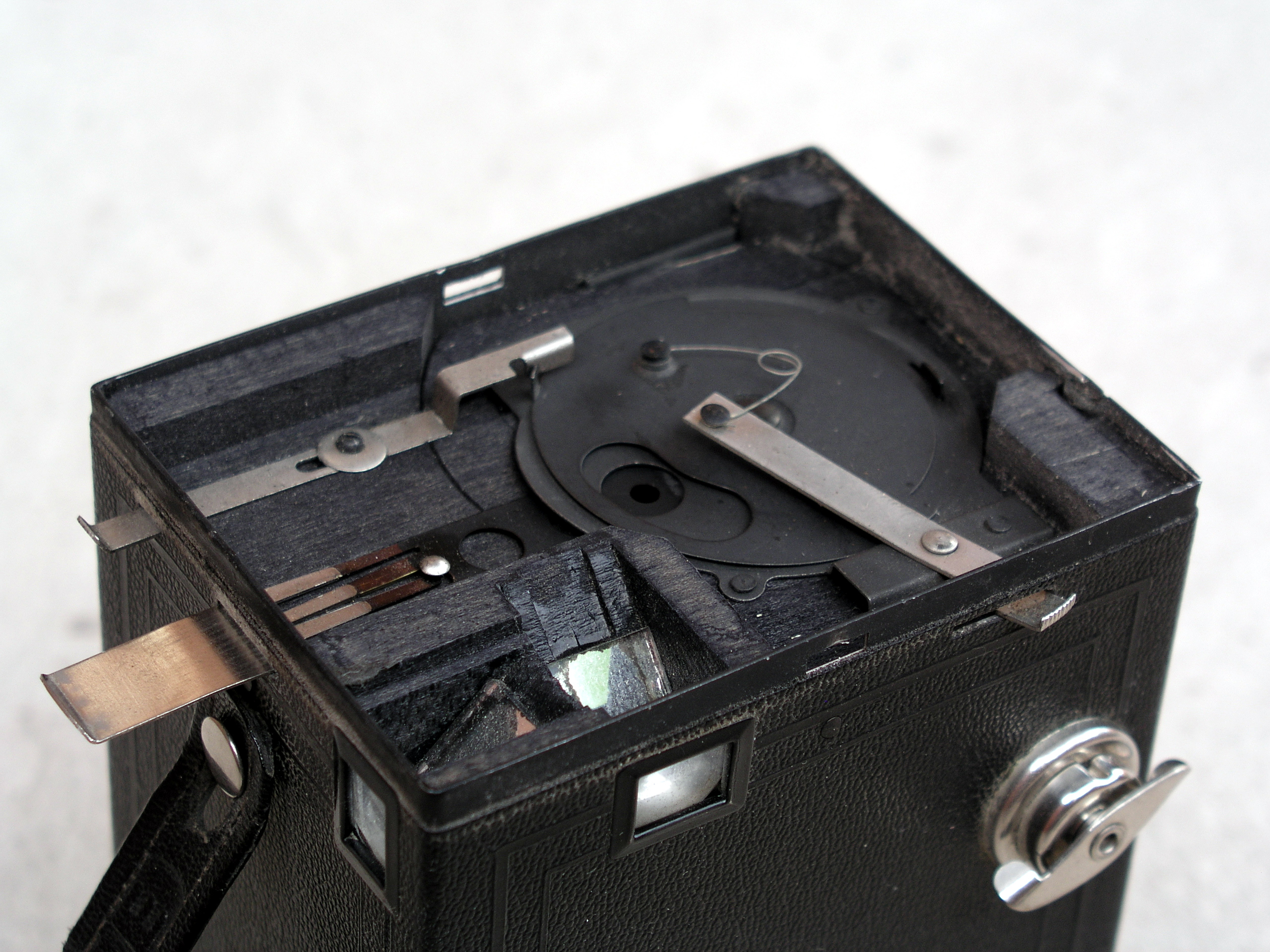 Kodak Brownie camera, shutter detail 3 — shutter open.